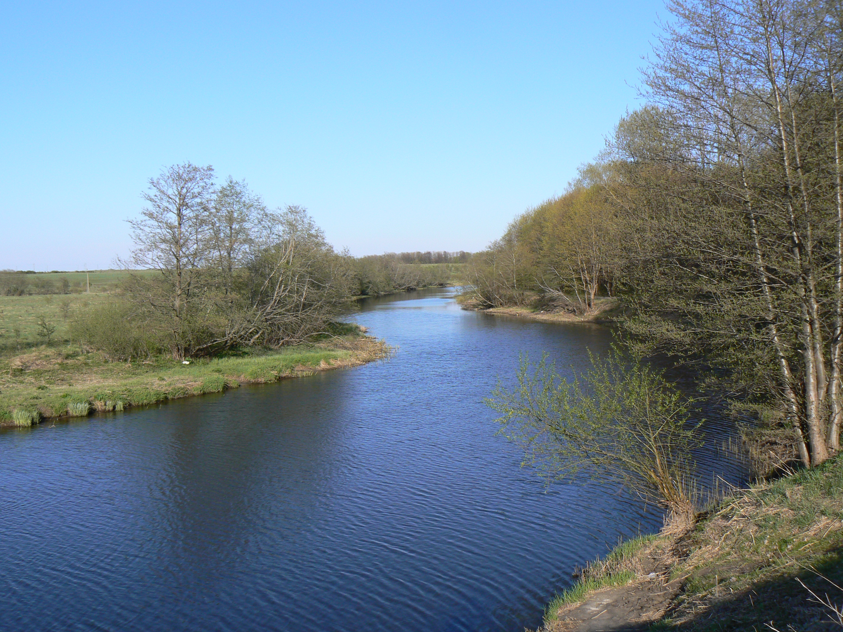 River Danė in Klaipėda